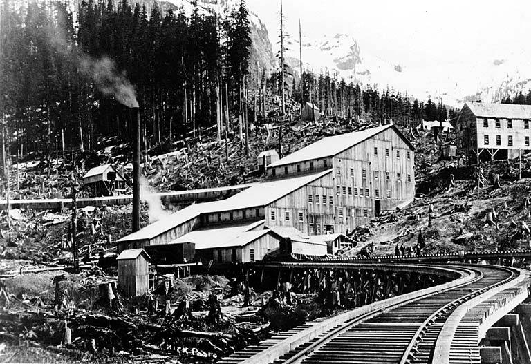 United Concentration Company's plant, Monte Cristo, Washington, 1894 Notes: Shows the Cliff House Hotel to the right, tracks of the Everett and Monte Cristo Railway in foreground. Caption on image: Kirk Photo